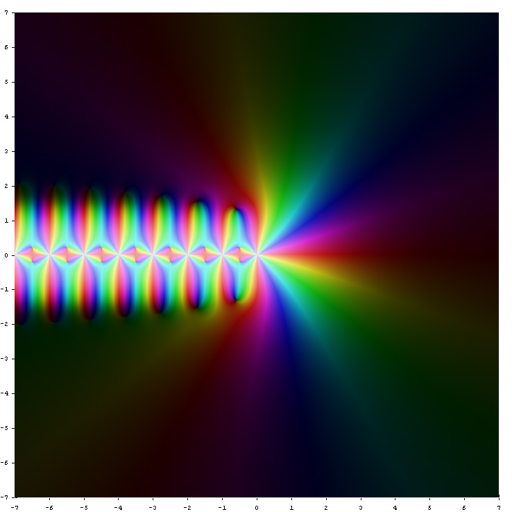 function PolyGamma[3,z] in the complex plane